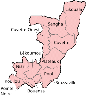 Map of the regions of the Republic of the Congo, named in French (local language), mostly compatible with English. The individual maps are: Bouenza Brazzaville (a commune) Cuvette Cuvette-Ouest Kouilou Lékoumou Likouala Niari Plateaux Pool Sangha